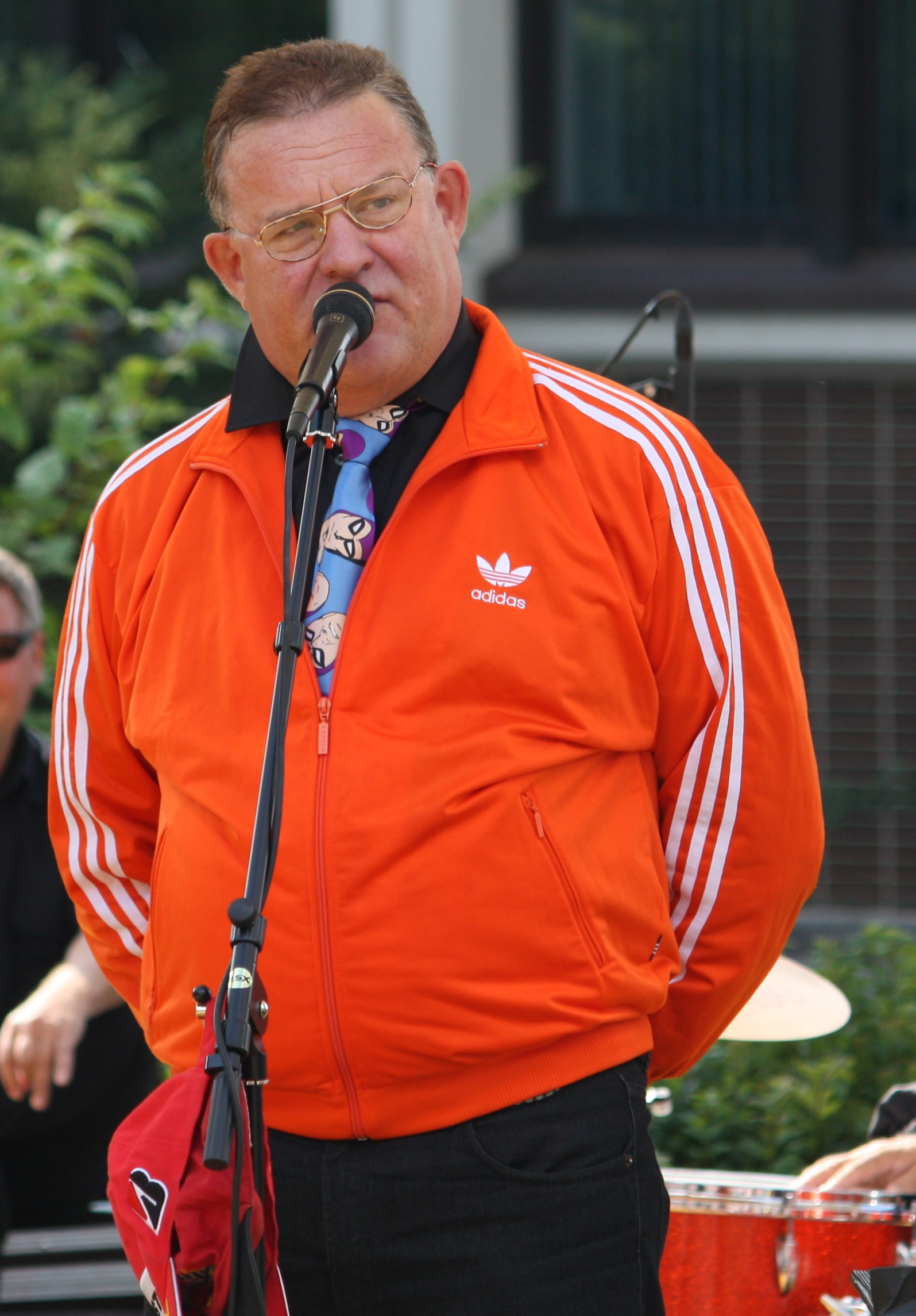 Finnish actor and musician Juha Laitila imitating President Martti Ahtisaari at Garlic Festival 2011 in Kerava, Finland.